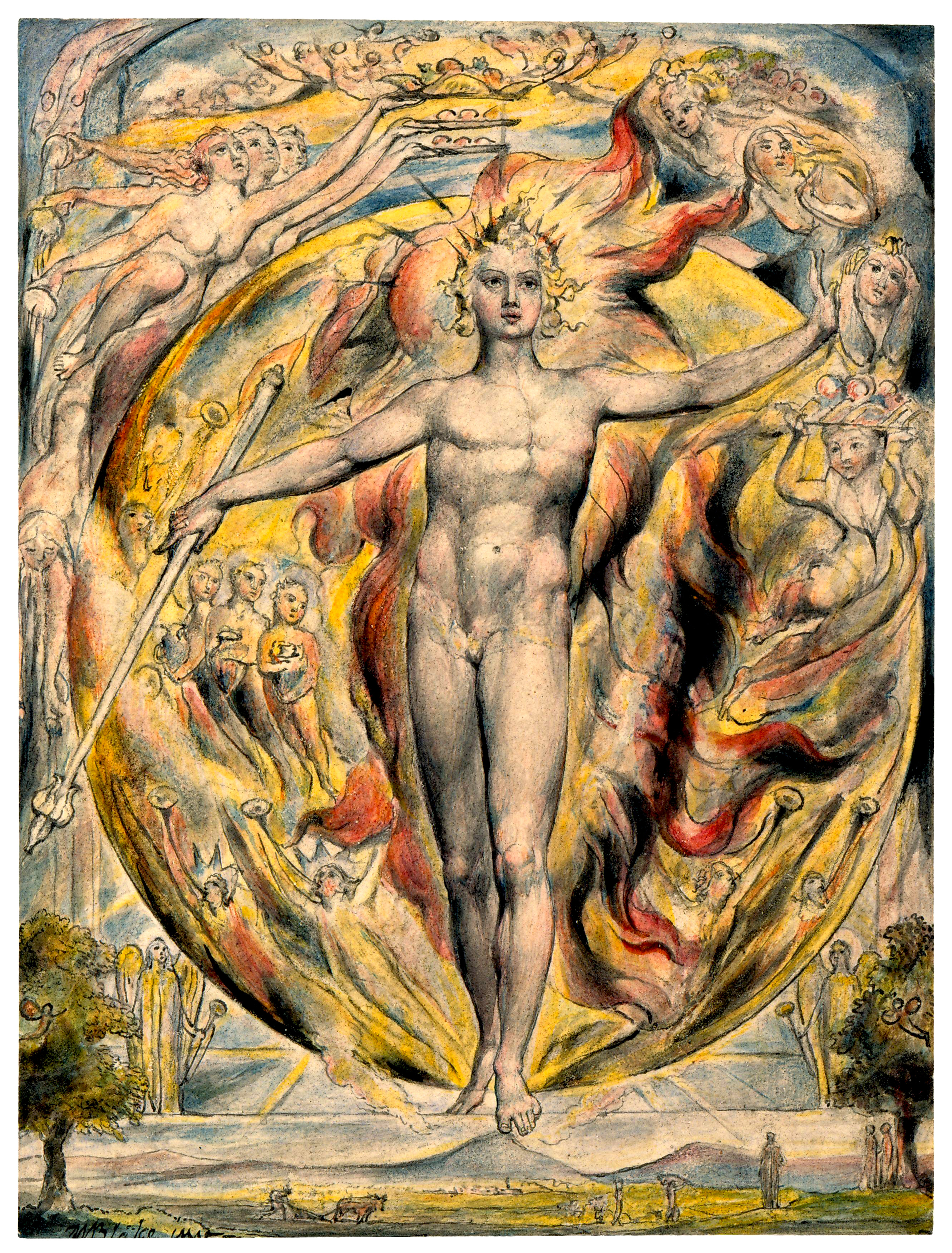 The Sun at His Eastern Gate, Watercolor Illustration to Milton's L'Allegro and Il Penseroso by William Blake